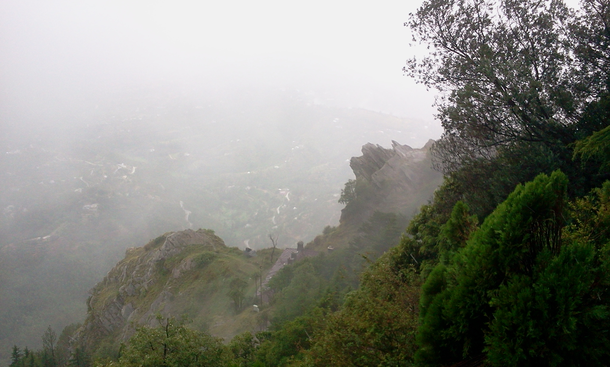 Mukteshwar, India